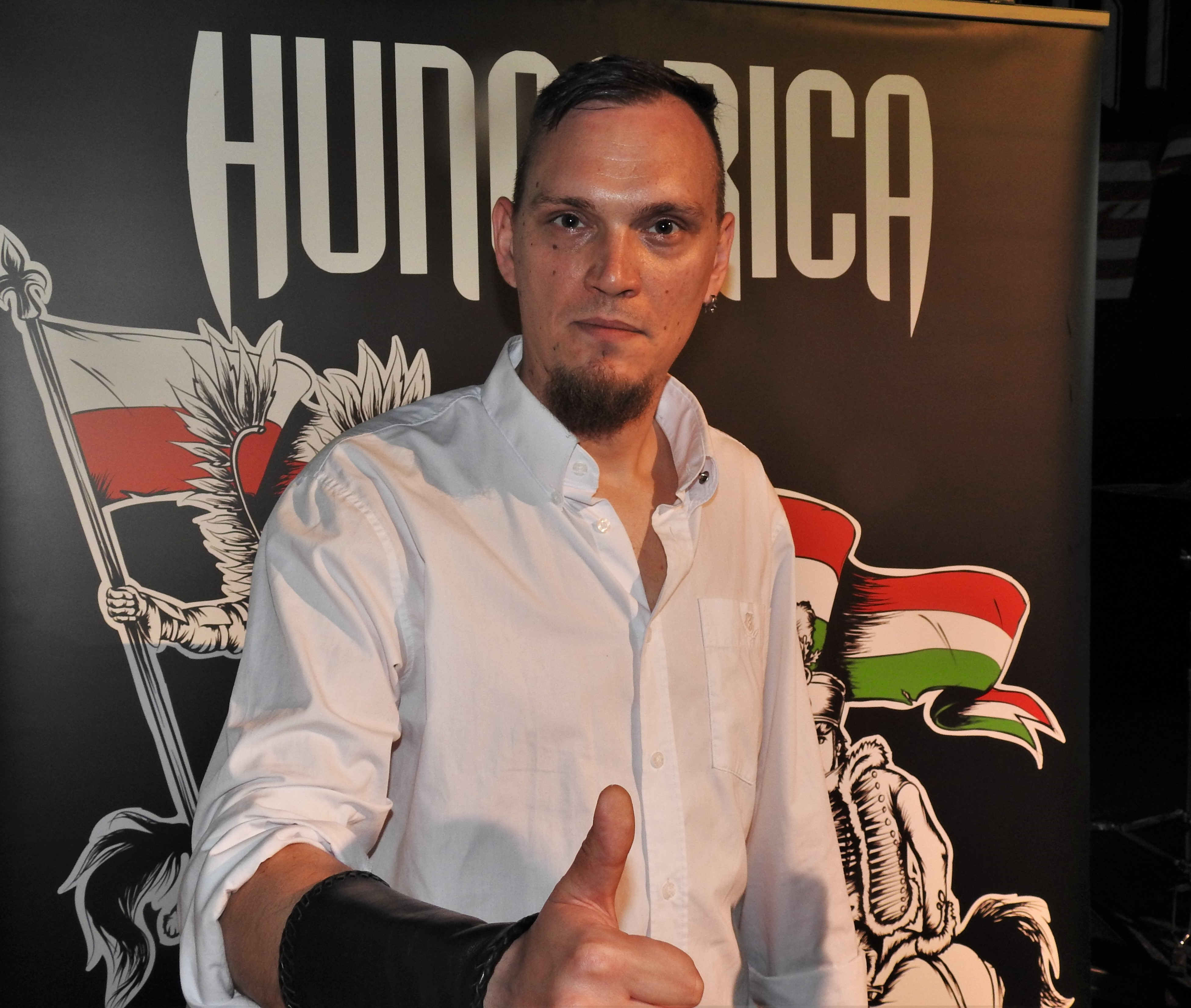 Fábián Zoltán - vocalist of the Hungarian Hungarica music group. Kielce, Provincial House of Culture, March 23, 2019.